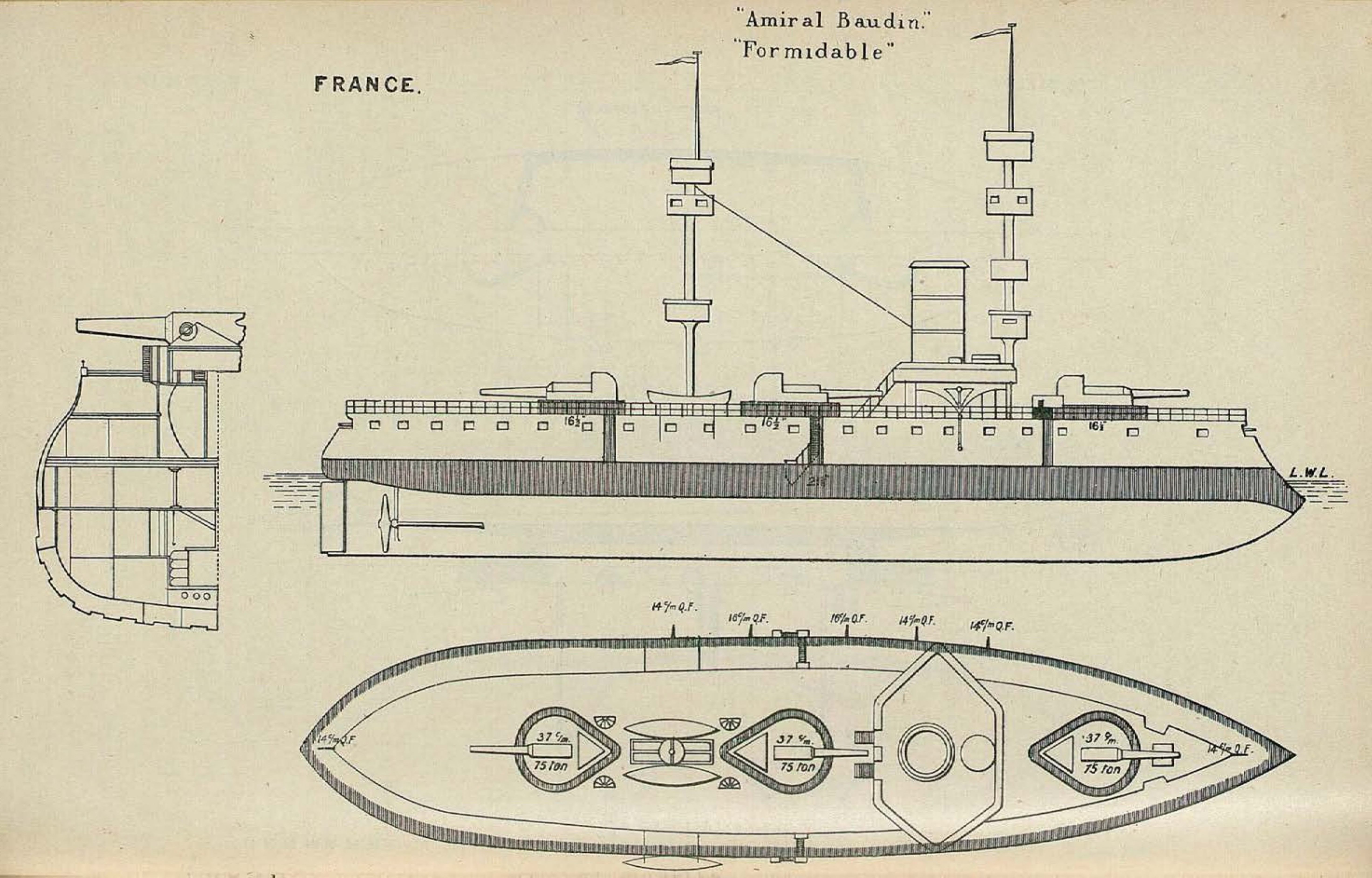 Right elevation, deck plan and hull section diagrams depicting French Amiral Baudin class battleship.